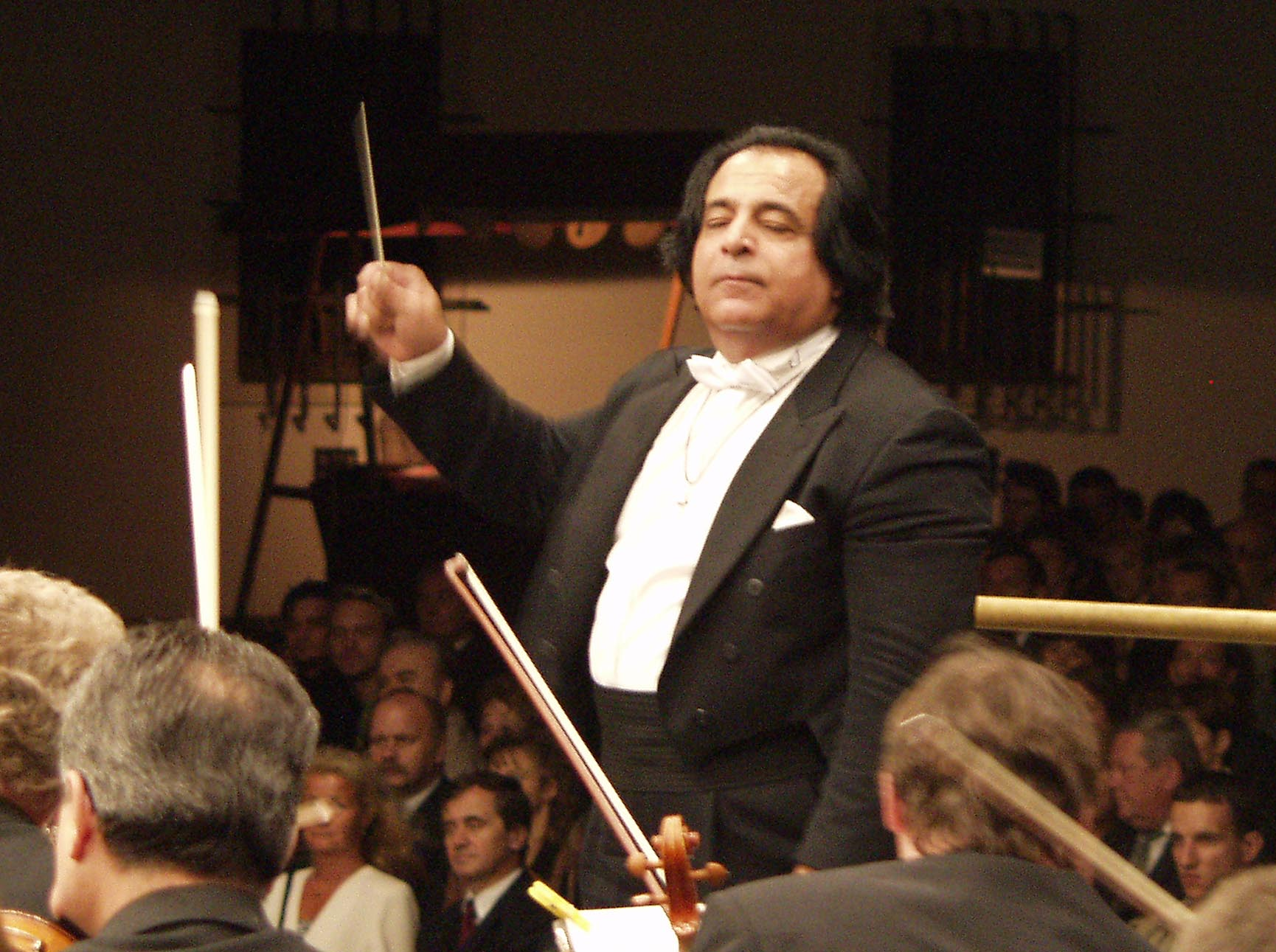 Iranian conductor Alexander Rahbari on 3rd year of Špilberk Festival in Brno, Czech republic.